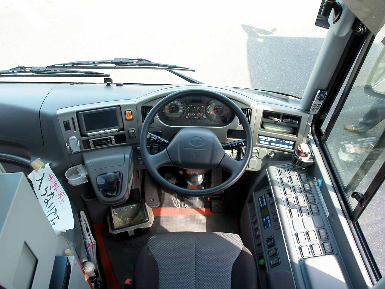 Cockpit and Instrument Panel of Hino S'elega and Isuzu Gala (each of 2nd model). Model: Isuzu Gala Hi-Decker (PKG-RU1ESAJ) License plate: TKA200 KA1474（足立200か1474） Place: Harumi pier parking: Chuo ward, Tokyo Japan (in Tobus exhibition day)